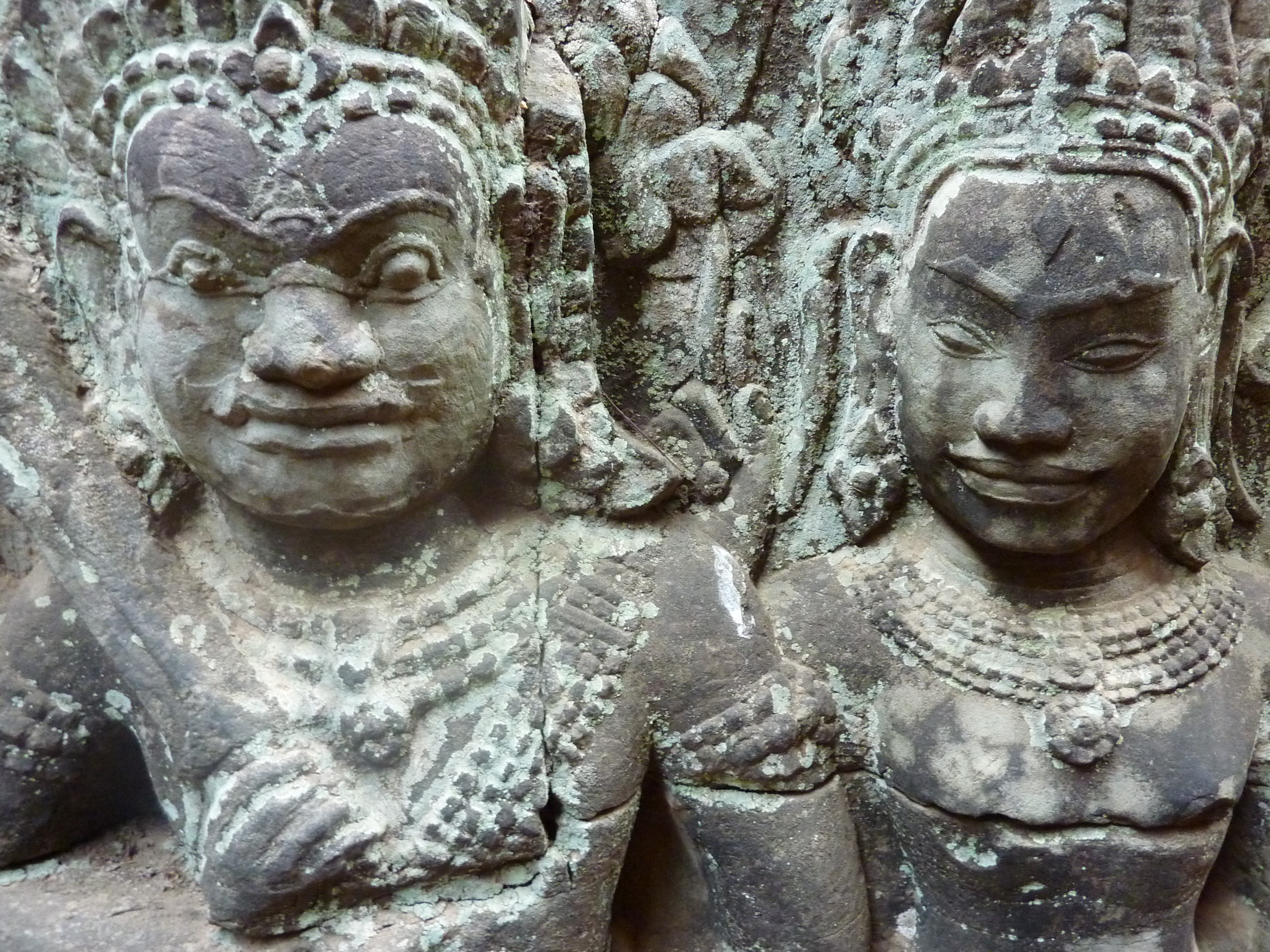 Terrace of the Leper King. Angkor Thom, Cambodia